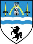 Ballinasloe town arms.